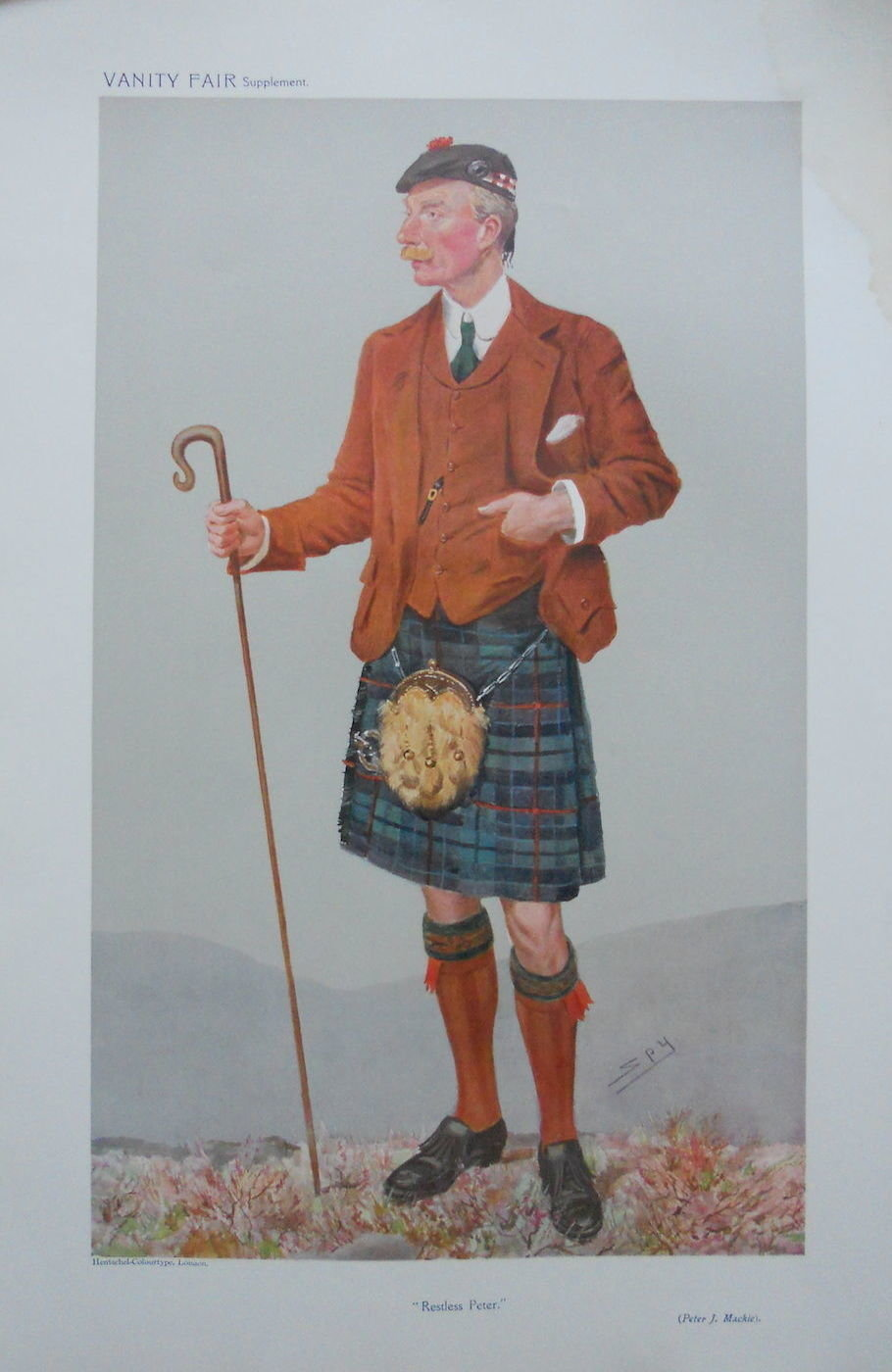 Vanity Fair caricature of Peter Mackie by Spy. Caption read “Restless Peter”.